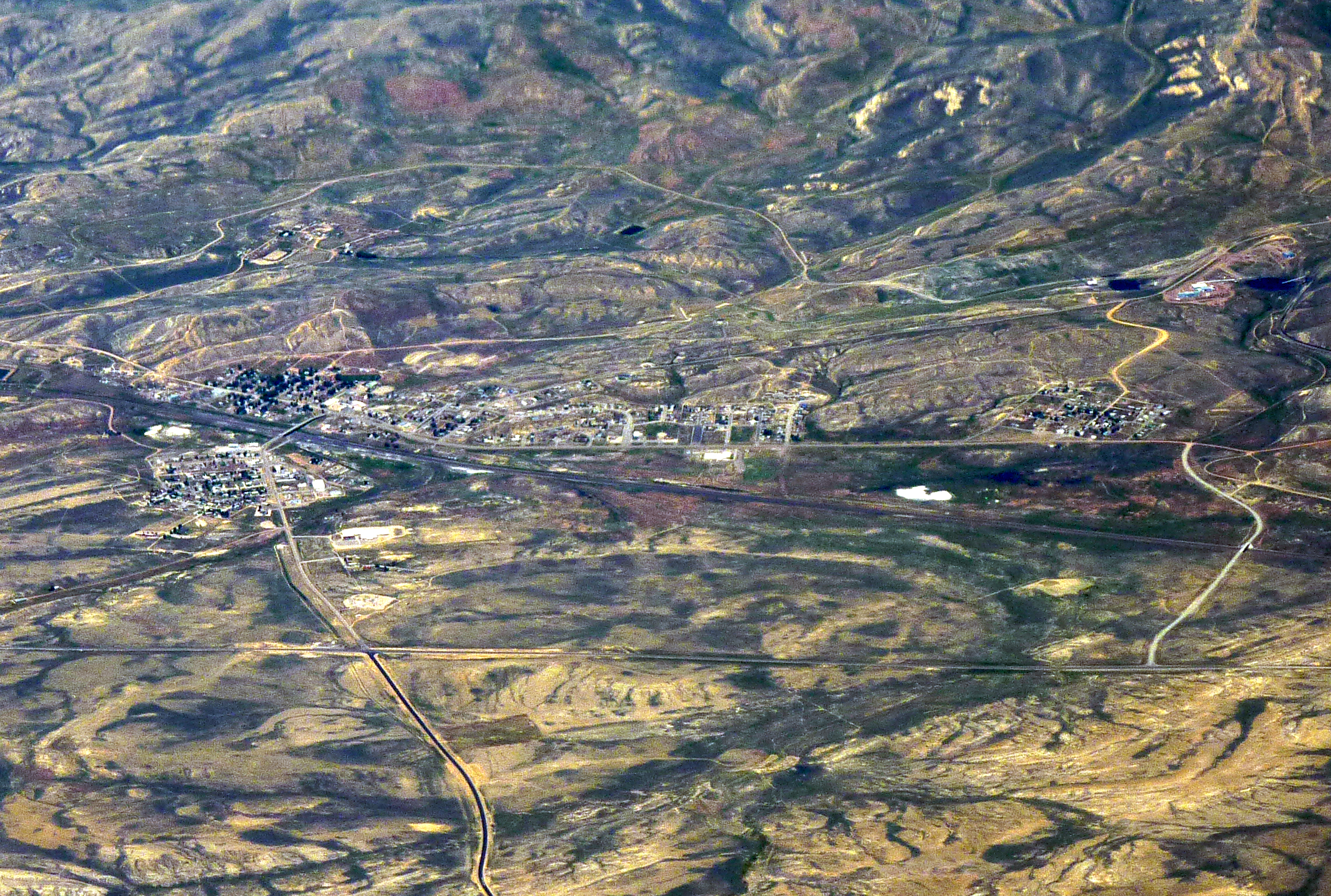 Aerial photo of Hanna, Wyoming, USA.